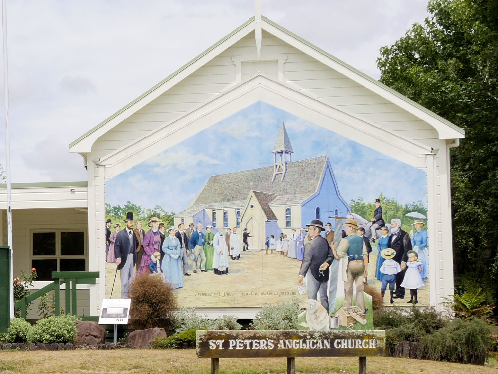 St Peter's Anglican Church (Wallpainting), Katikati, Western Bay of Plenty District, North Island, New Zealand